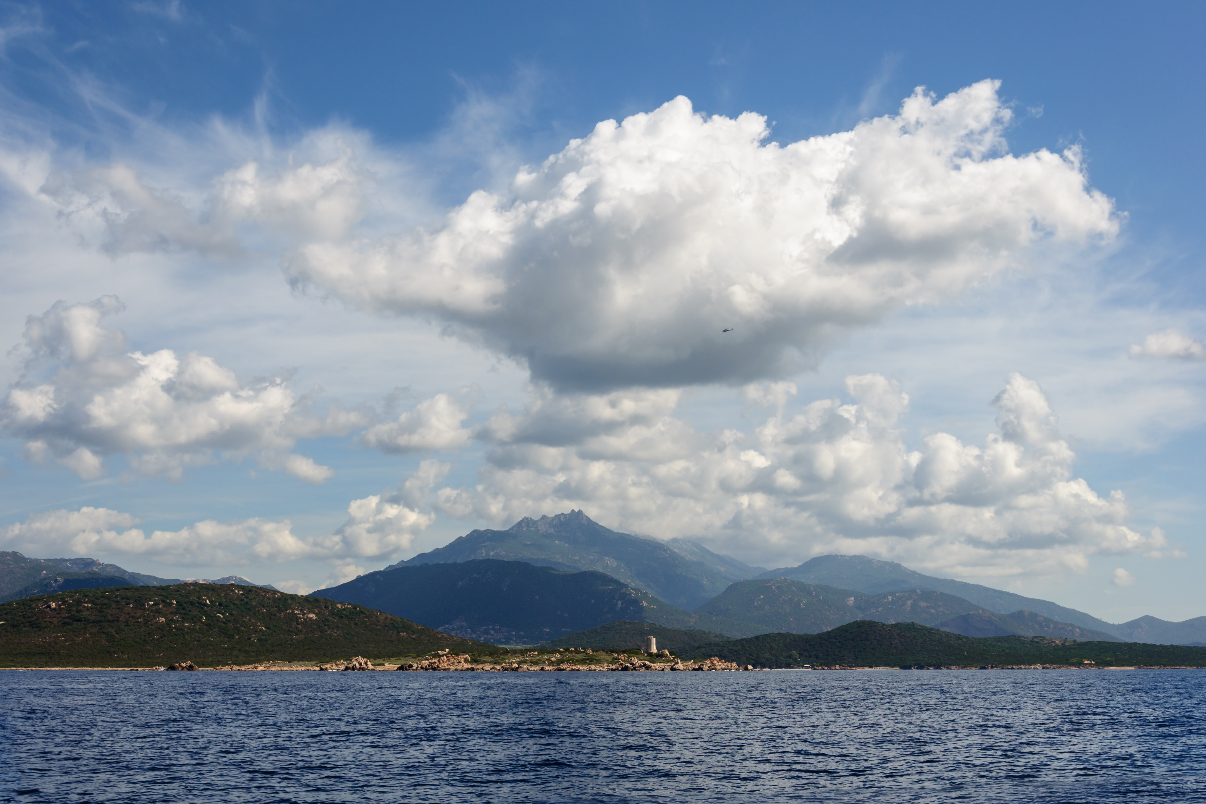 Clouds above the Genoese tower of Olmeto and the surronding coast. In the background, the Cagna Mountain (Corsica, France